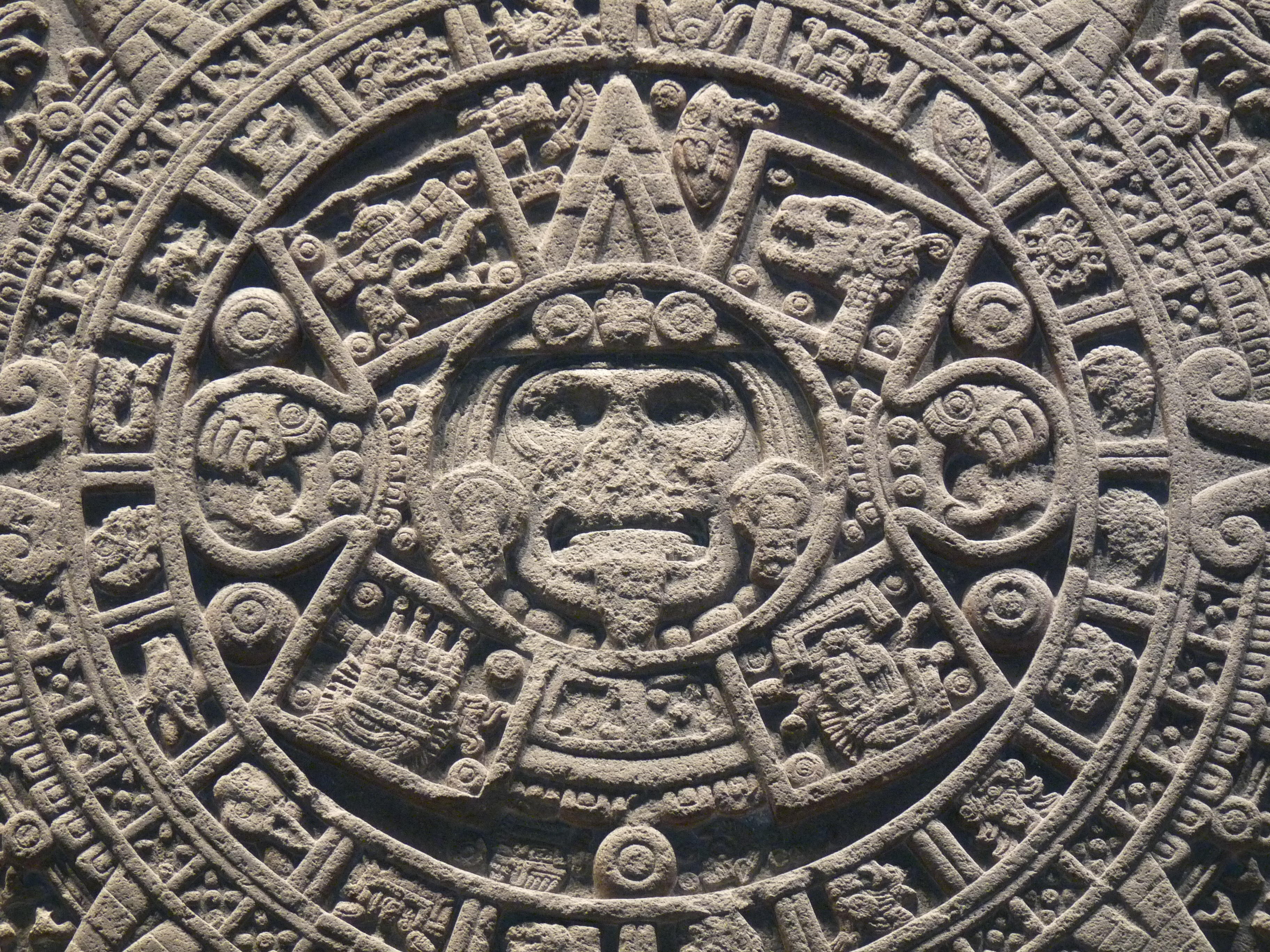 Central part of the monolith of the Stone of the Sun, also named Aztec calendar stone (National Museum of Anthropology and History, Mexico City).